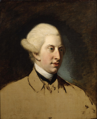 Prince William Henry, Duke of Gloucester and Edinburgh (1743-1805)